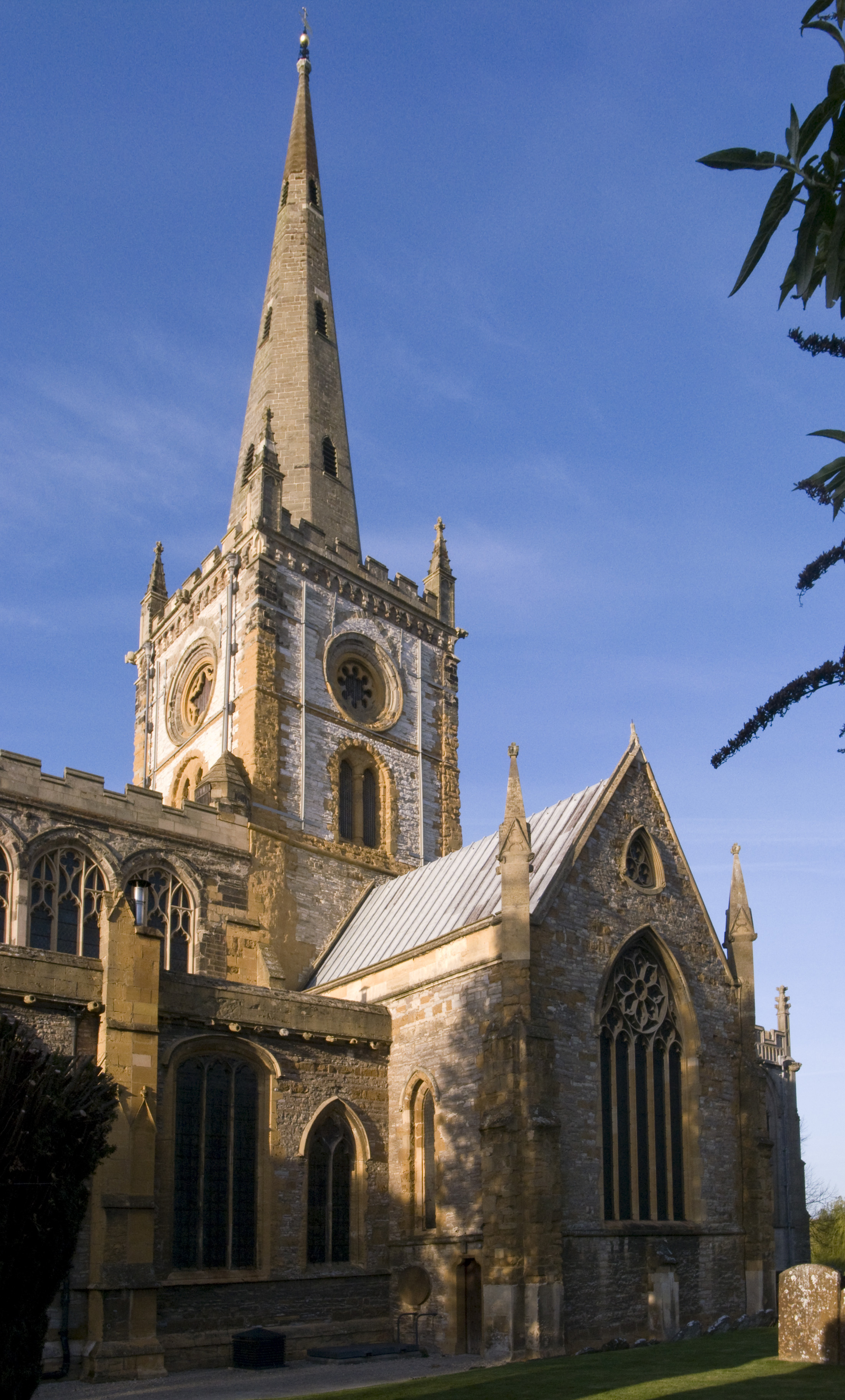 Church of the Holy Trinity, Stratford-upon-Avon, England. Corrected for perspective.